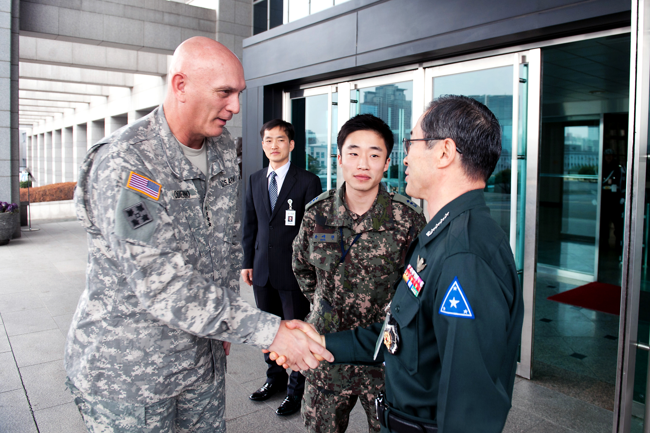 U.S. Army Chief of Staff Gen. Raymond T. Odierno shakes hands with South Korean Army Chief of Staff Kim Sang-Ki after a meeting at the Minister of National Defense headquarters in Seoul, South Korea, Jan. 20, 2012.